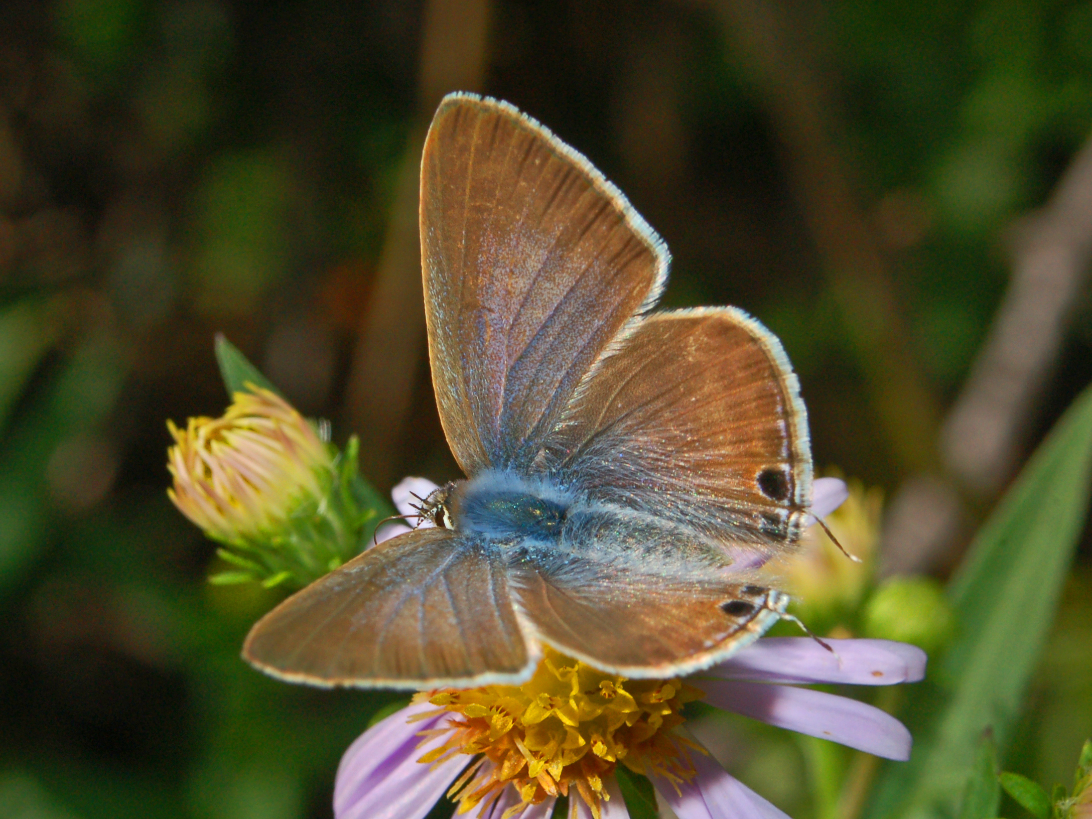 Female of Lampides boeticus. Piani di Praglia, Genova, Italy